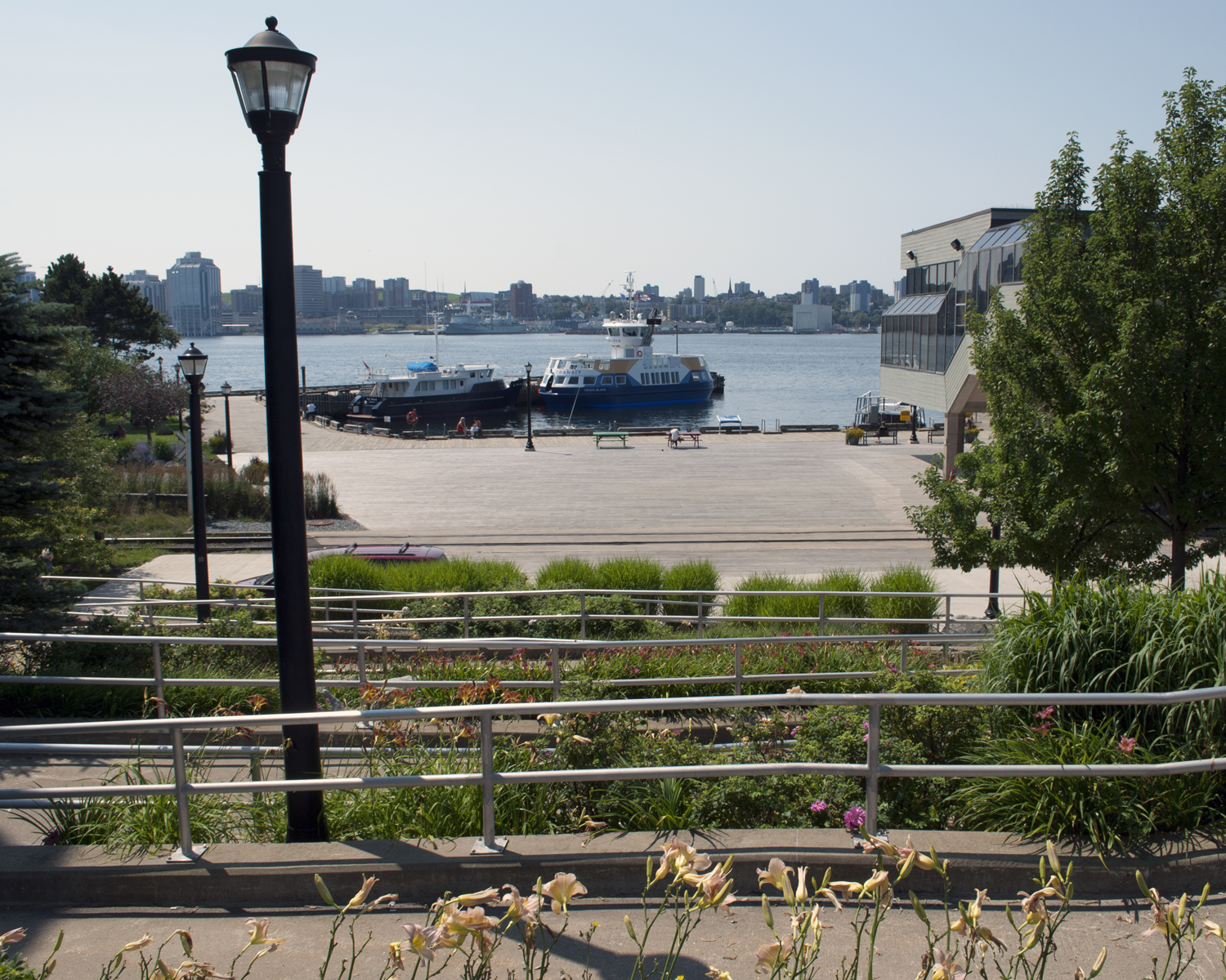 Plaza, boardwalk and wharf between Dartmouth ferry terminal and Ferry Terminal Park in downtown Dartmouth